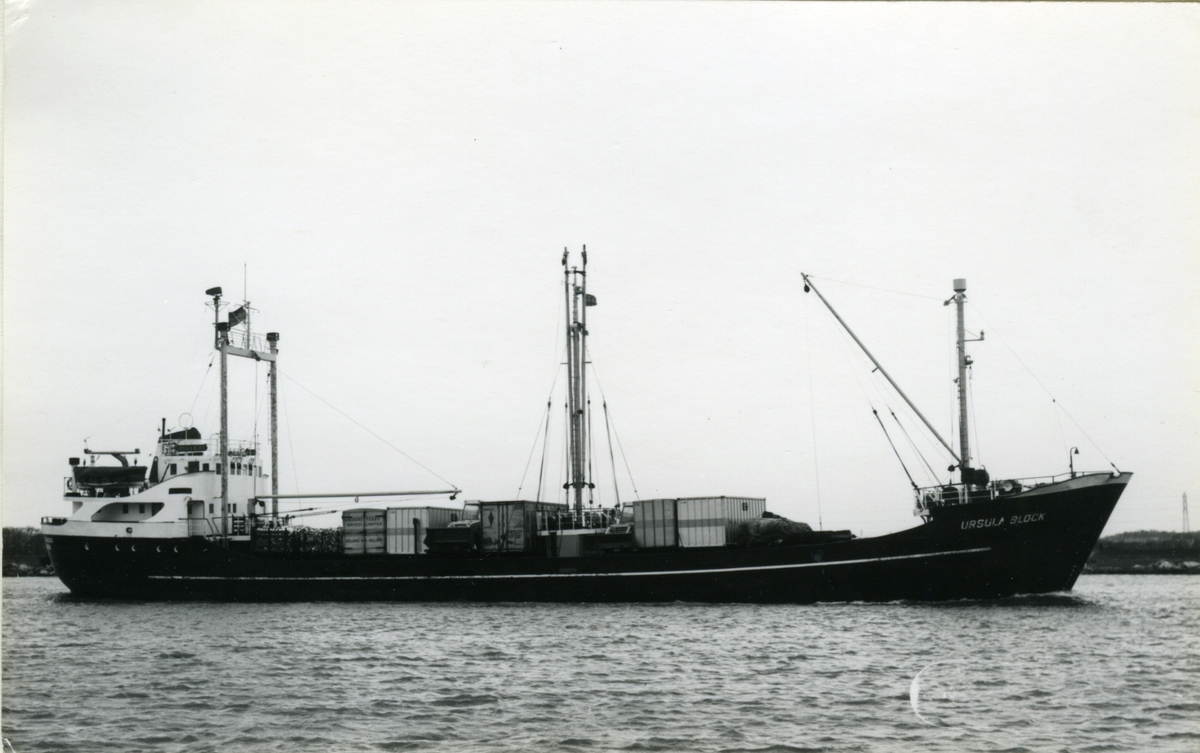 German coaster URSULA BLOCK (IMO 5374377) built at J.J. Sietas Schiffswerft, Hamburg-Neuenfelde, in 1958 (№ 431, Sietas type 1), vessel was lengthened in 1962; collection J. Robert Boman (1926 - 2002) owned by Sjöhistoriska museet.